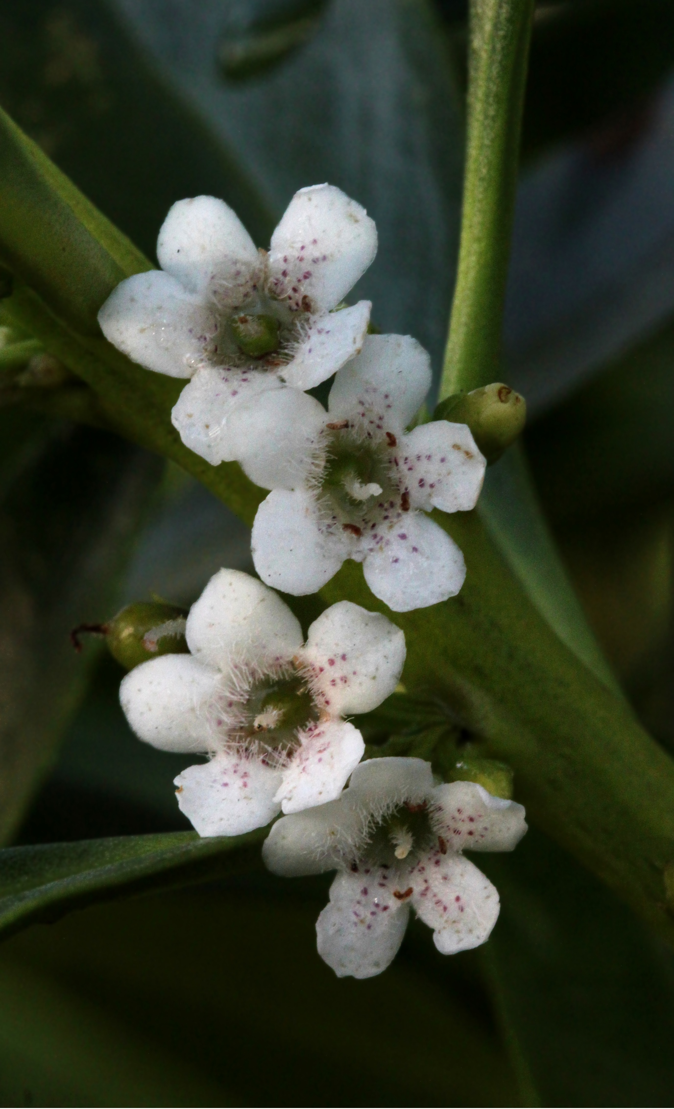 Ngaio (Myoporum laetum) flowers. Photo taken in Auckland, New Zealand.